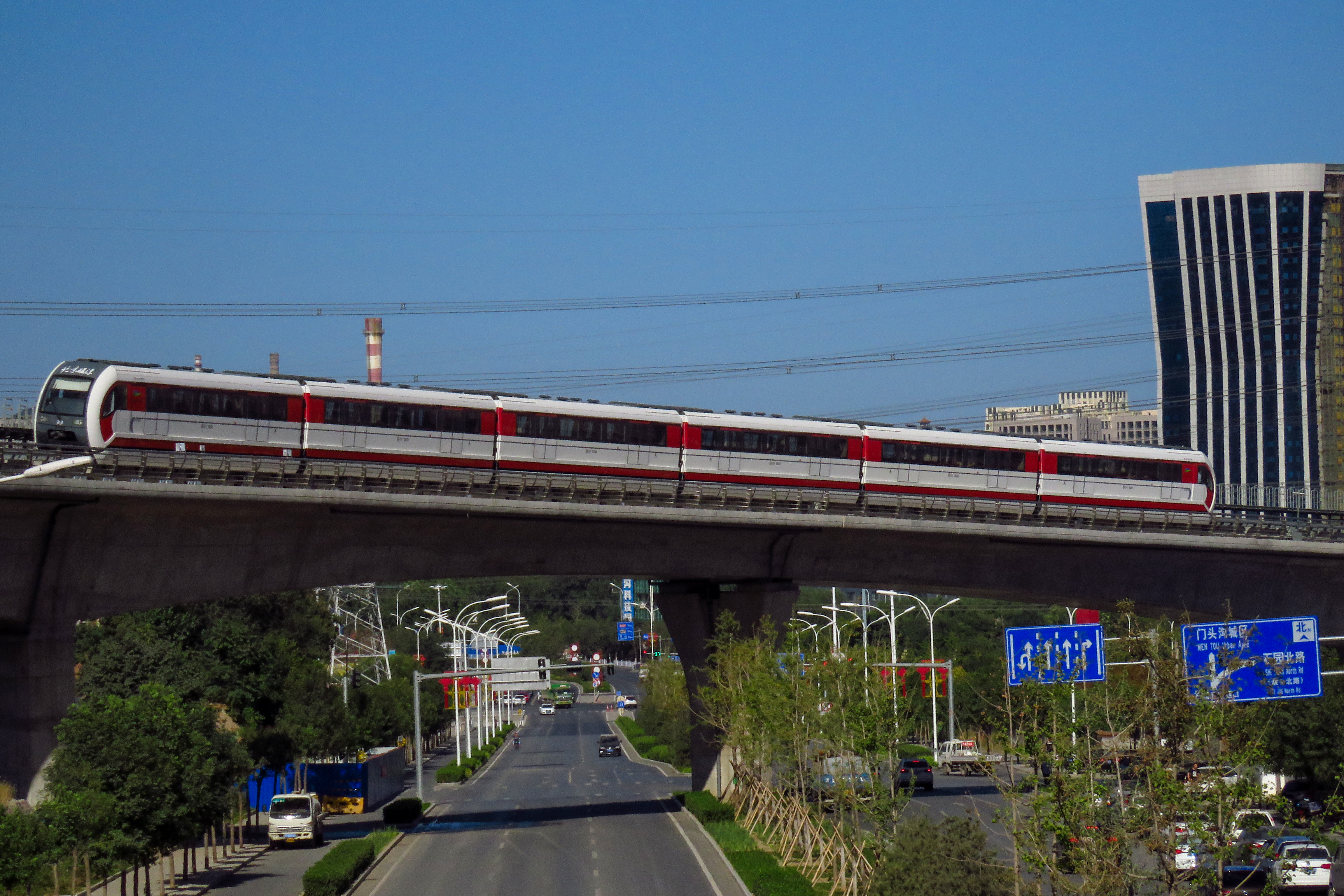 It would be better to spot these maglev trains before 12:00.